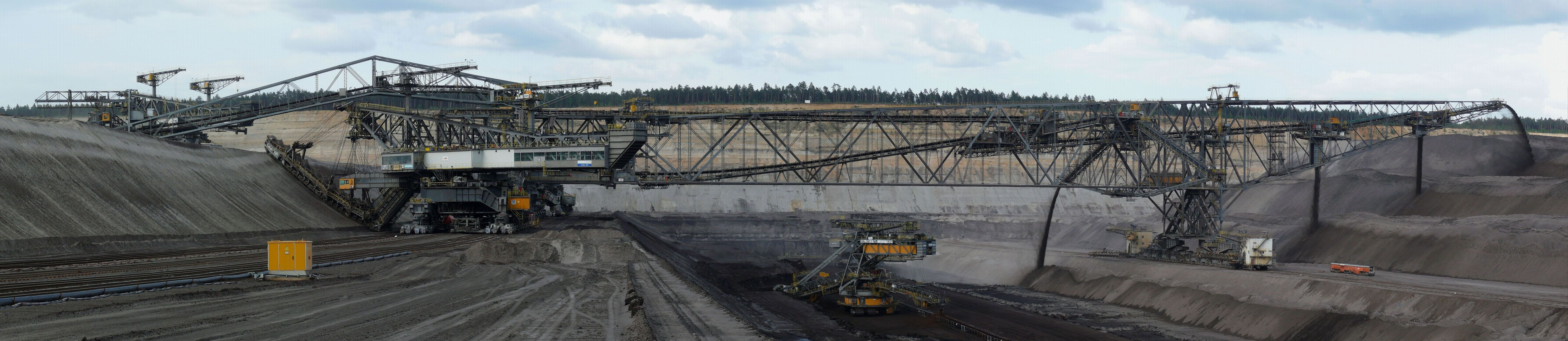 Overburden Conveyor Bridge of type F60 in the open cast mining Nochten, near Weißwasser, Lusatia, Germany.